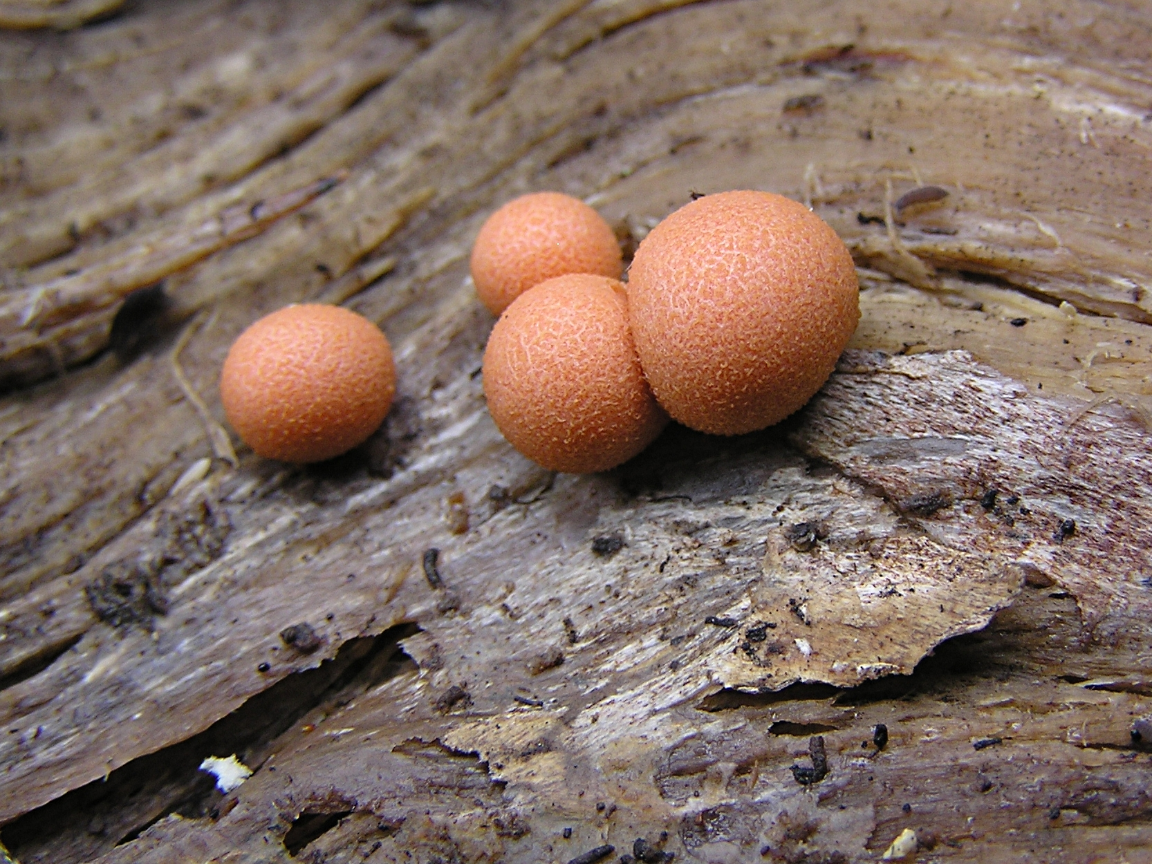 These small (2-3mm) orange balls are the fruiting bodies of "wolf's milk" slime mold growing on a decaying pinus radiata log. Wellington, New Zealand.